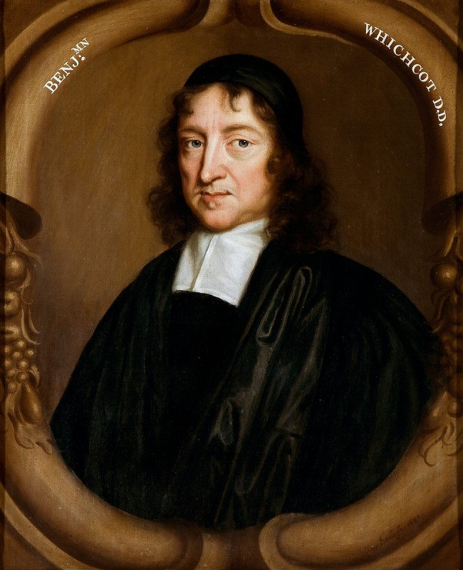 Benjamin Whichcote, Cambridge Platonist, Provost of King's College, Cambridge